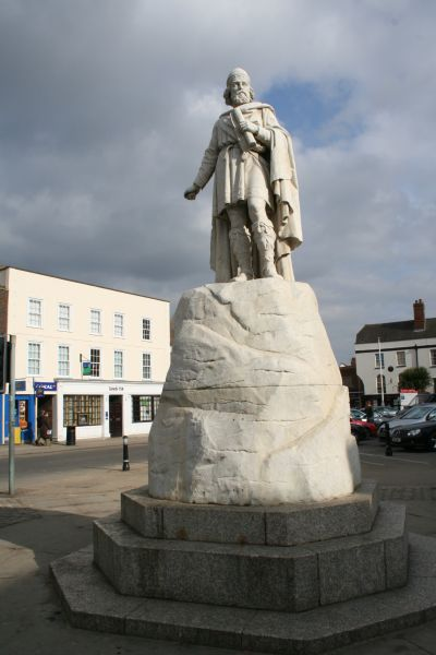 King Alfred Well known fellow round here burnt the cakes so I am told.